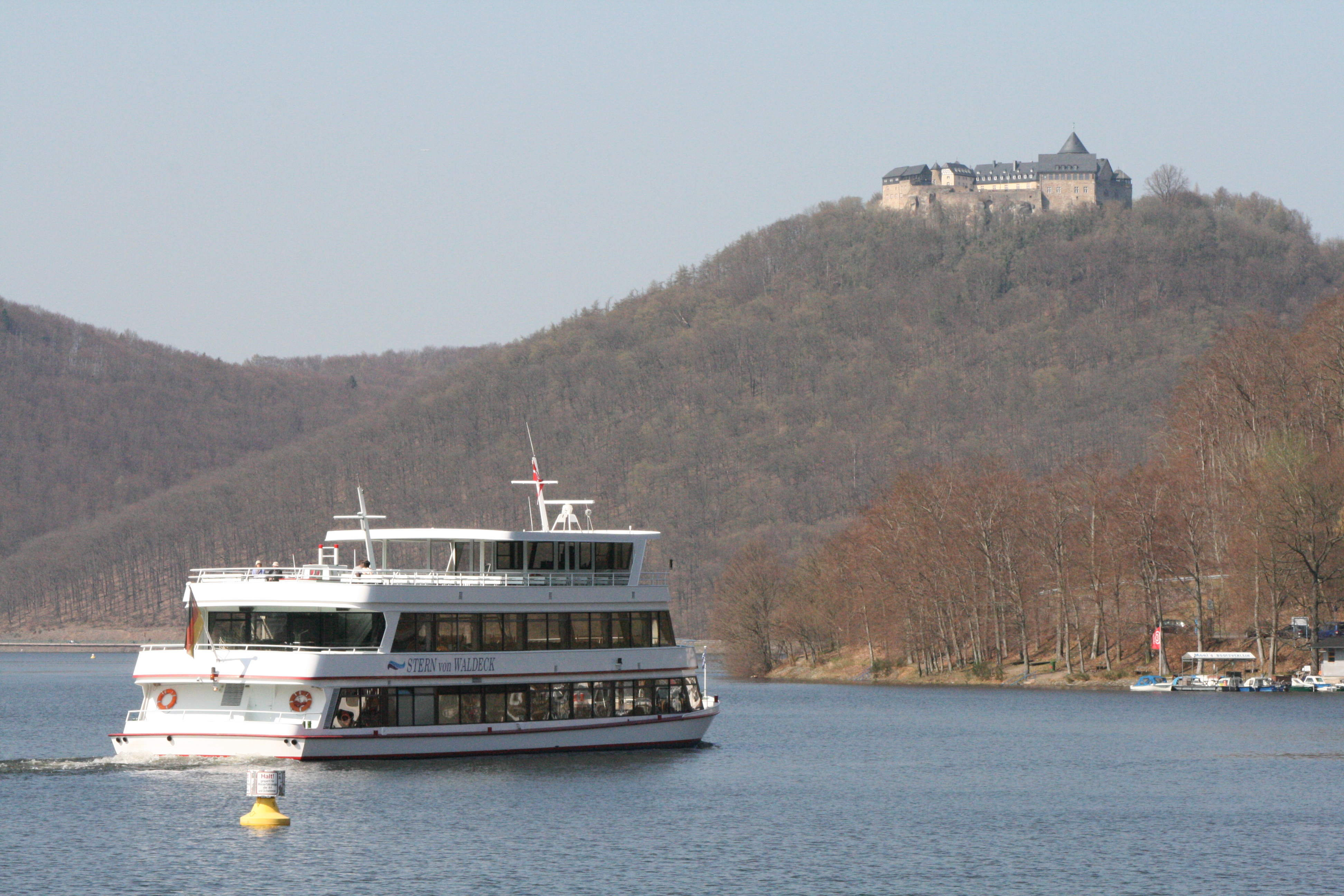 view from the dam